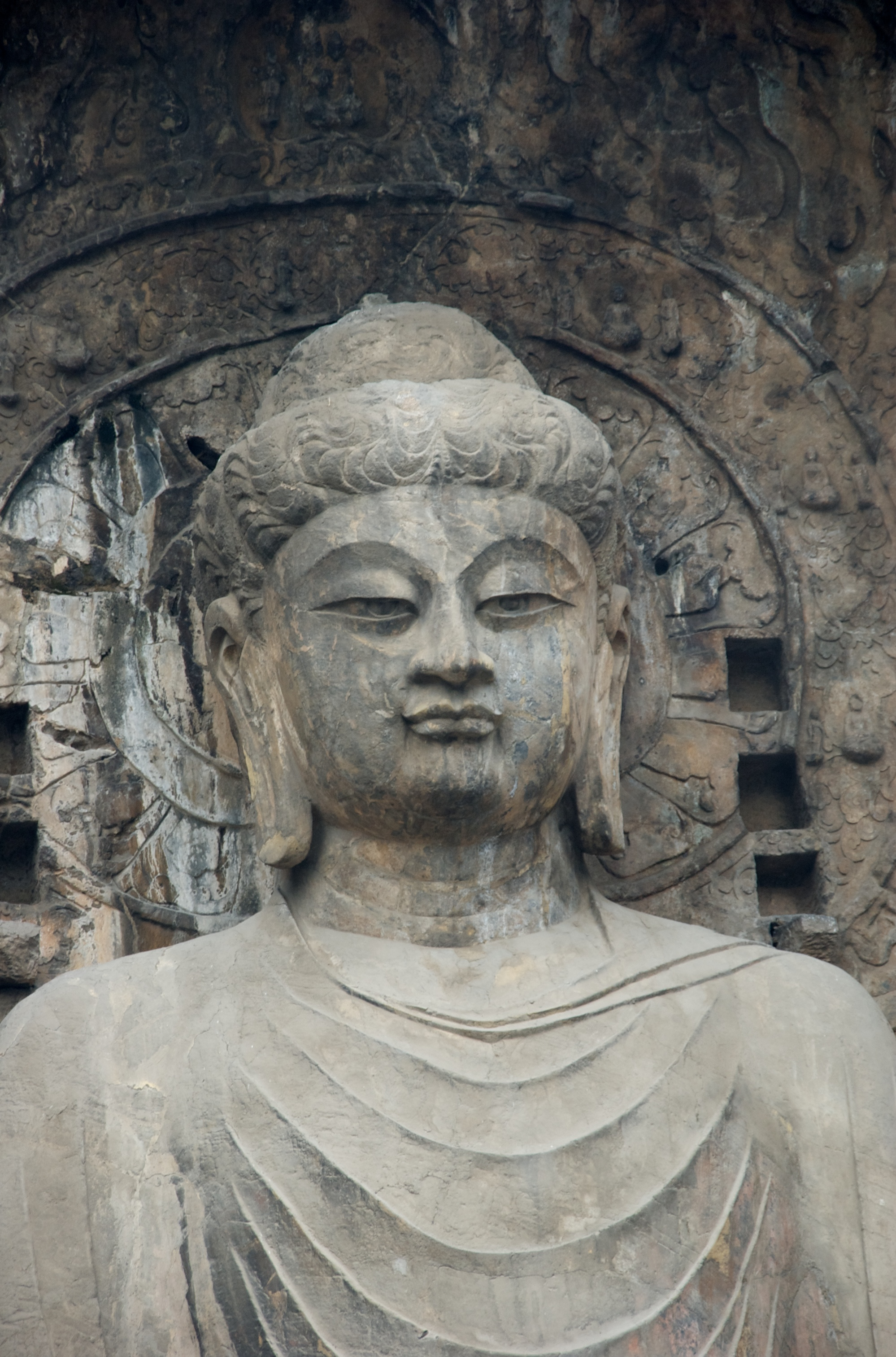 The Big Vairocana of Longmen Buddha Grottoes, Luoyang, Henan, China